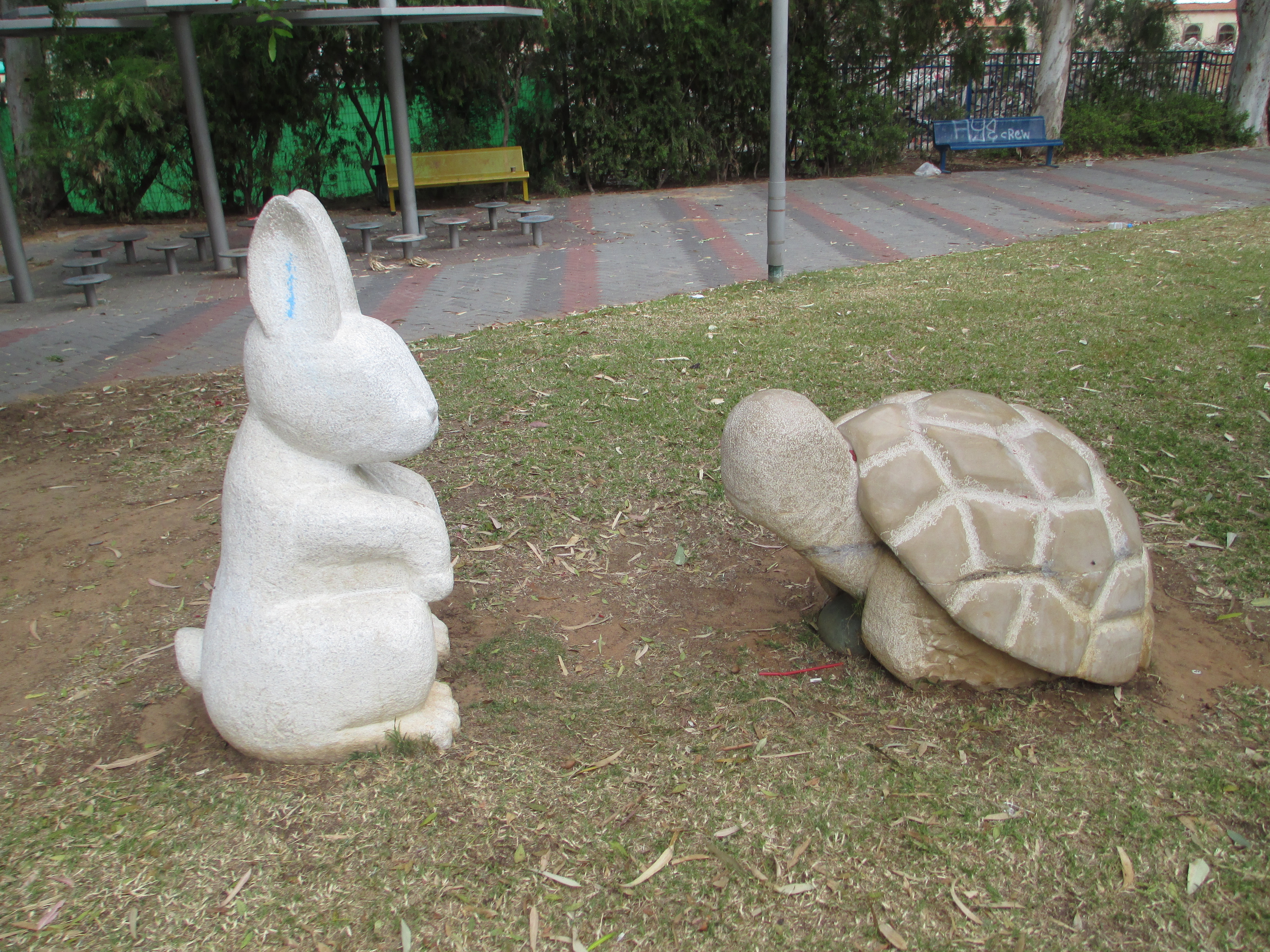 Mamushi Rabbit's Garden in Holon